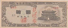 Obverse side of a South Korean note of 10 hwan